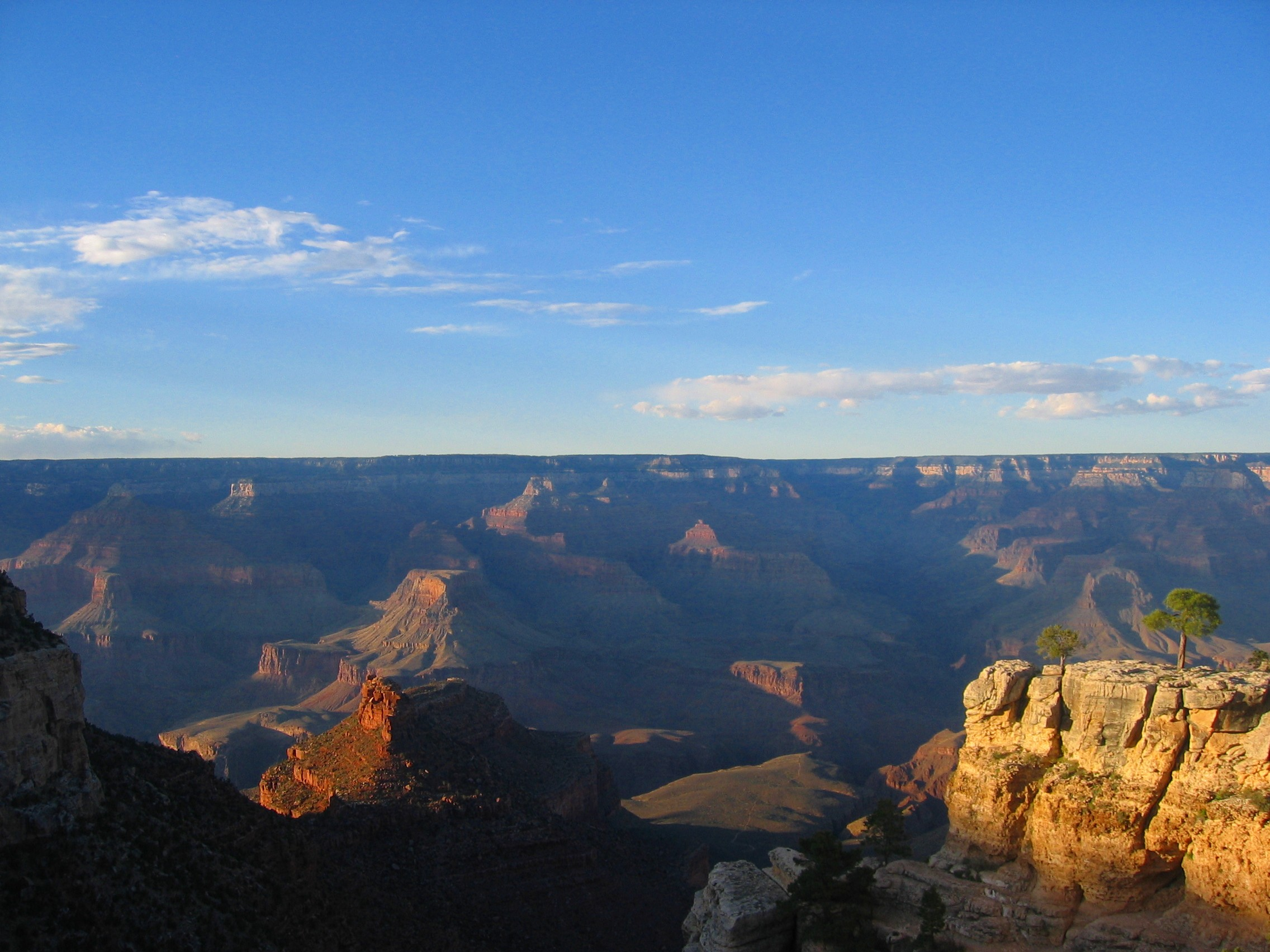 Photo of the Grand Canyon from the South Rim at Sunset.